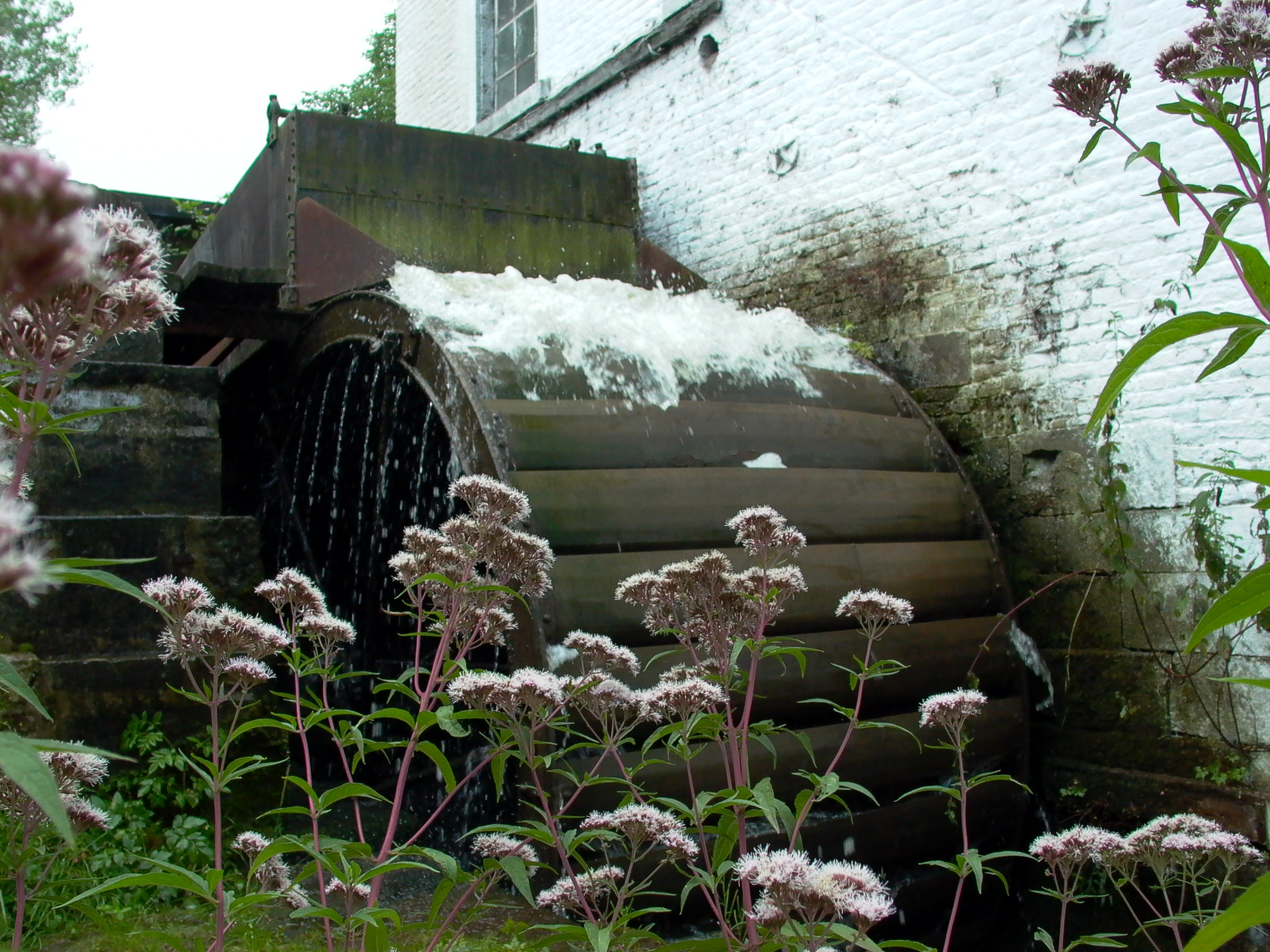 Gentinnes, Belgium - The Moulin Dussart: This mill is one of the last water mills in Belgium still in activity. This picture shows the wheel in operation.